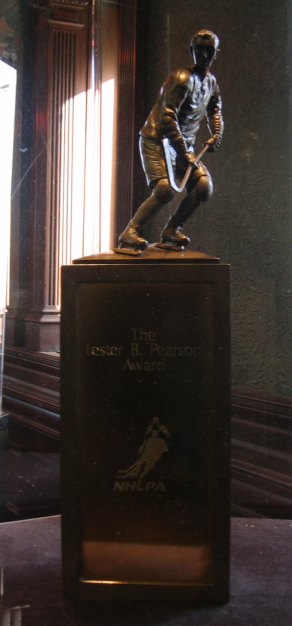 Lester B. Pearson Award on display at the Hockey Hall of Fame in Toronto. The award is presented to the NHL's most outstanding player during the regular season. Taken by Kmf164 on November 19, 2005.